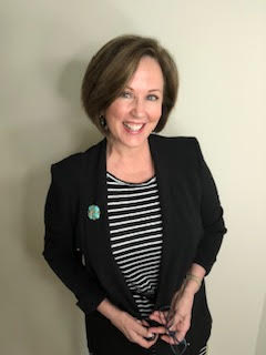 Photo of Geralin Thomas taken March 31st, 2019